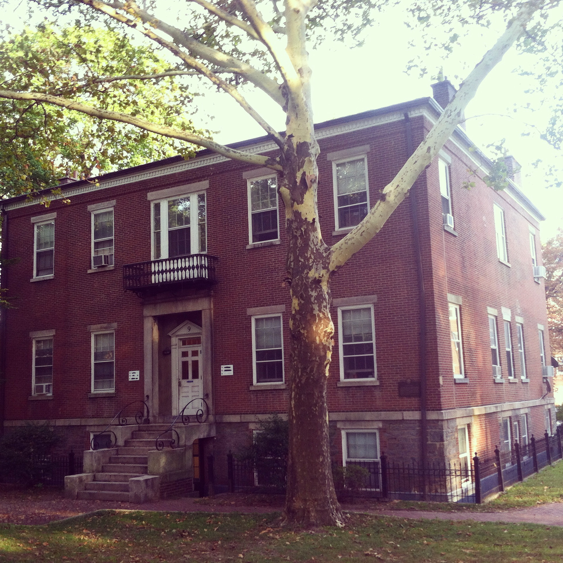 The Block House, Governors Island New York